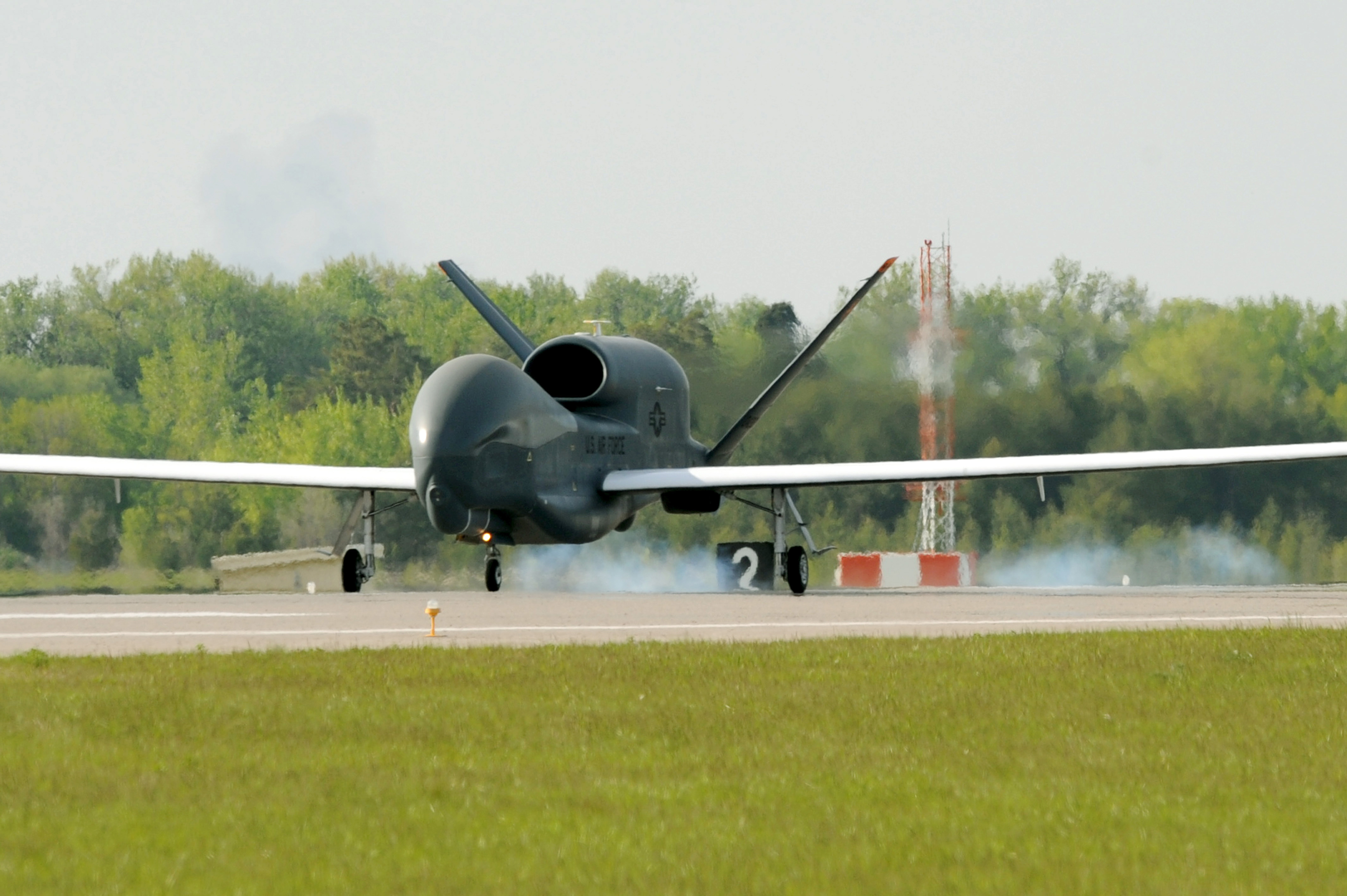 The first Grand Forks RQ-4 Global Hawk arrives at Grand Forks Air Force Base, N.D. May 26, 2011. It will be maintained under Detachment 1, 9th Reconnaissance Wing.